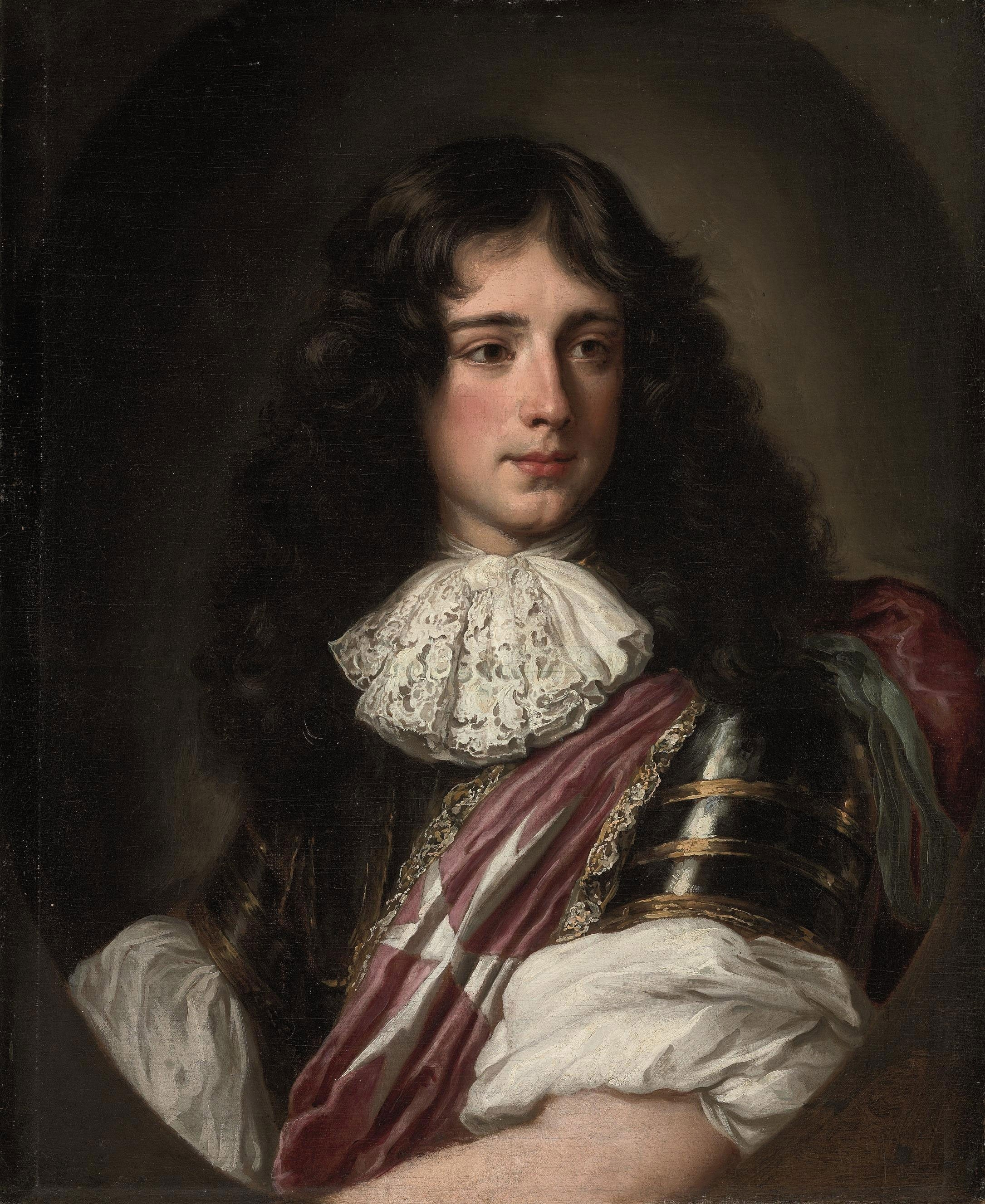 Portrait of Philippe, Duke of Vendôme (1655-1727), Grand Prior of the Knights of Malta in France, bust-length, in a feigned oval